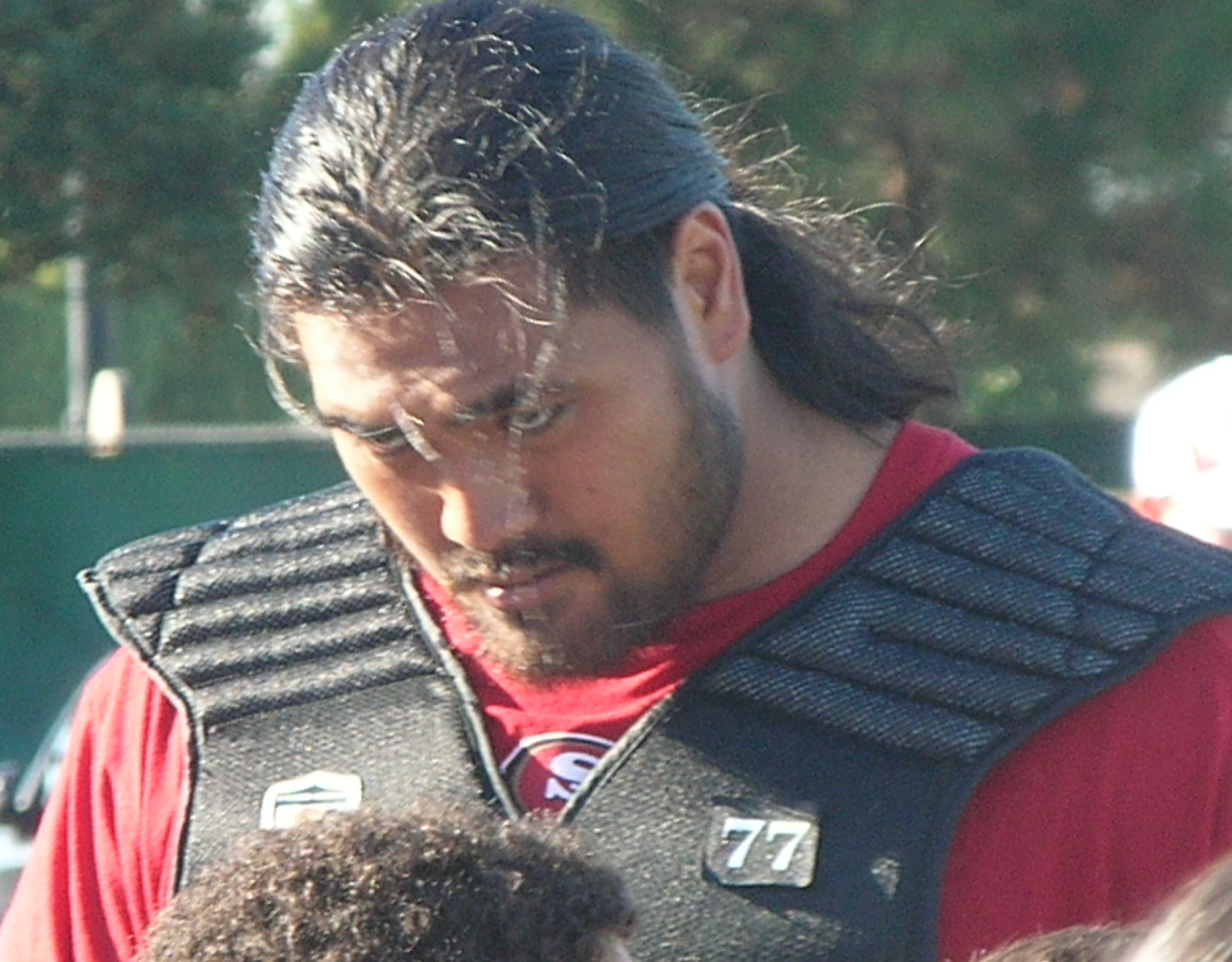 San Francisco 49ers guard Mike Iupati at training camp in Santa Clara, California.